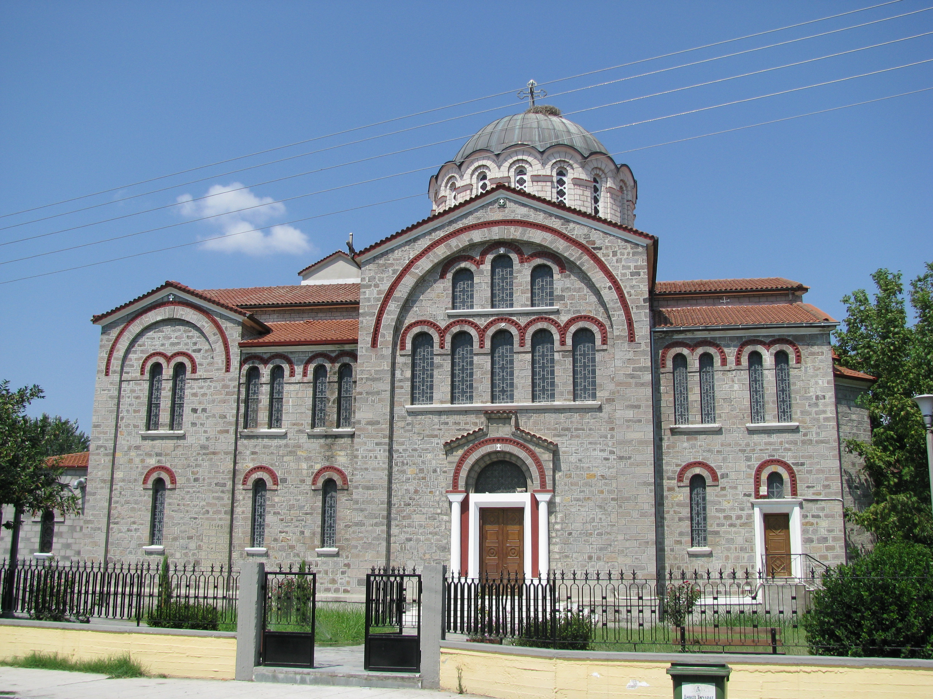 Church of Vartokop or Skidra, Pella prefecture, Greece